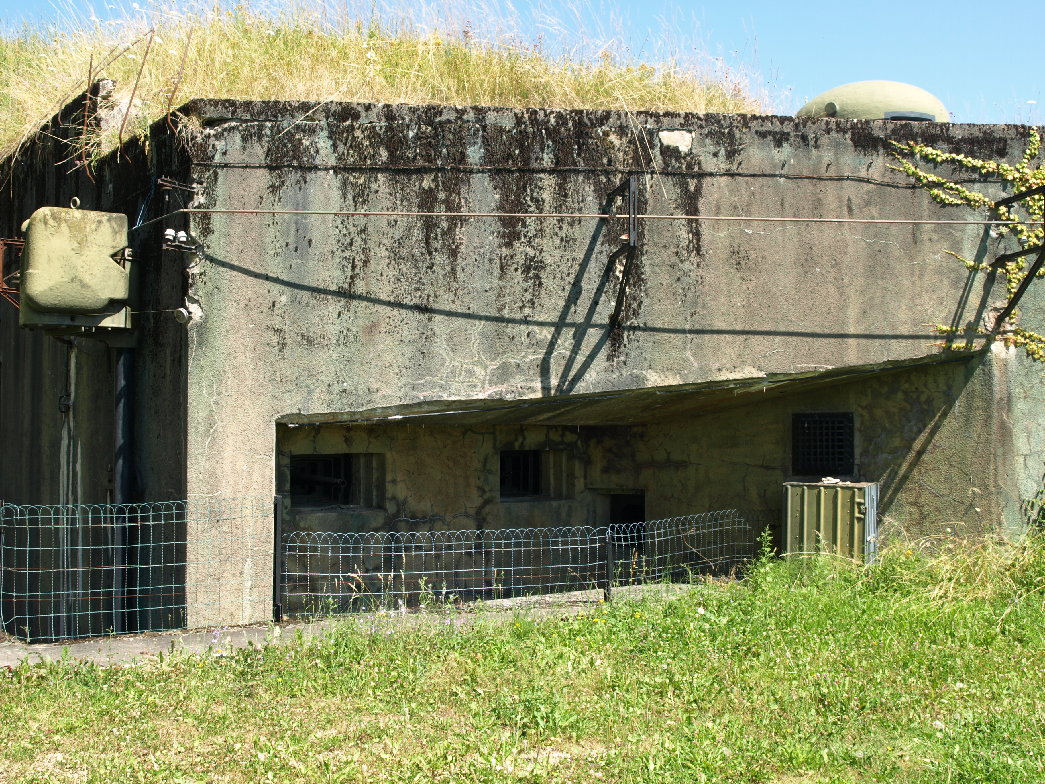 Bunker Sentzich on the Maginot Line